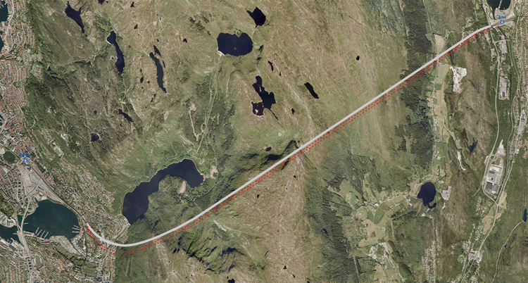 Map of Ulrikstunnelen, Arna-Bergen